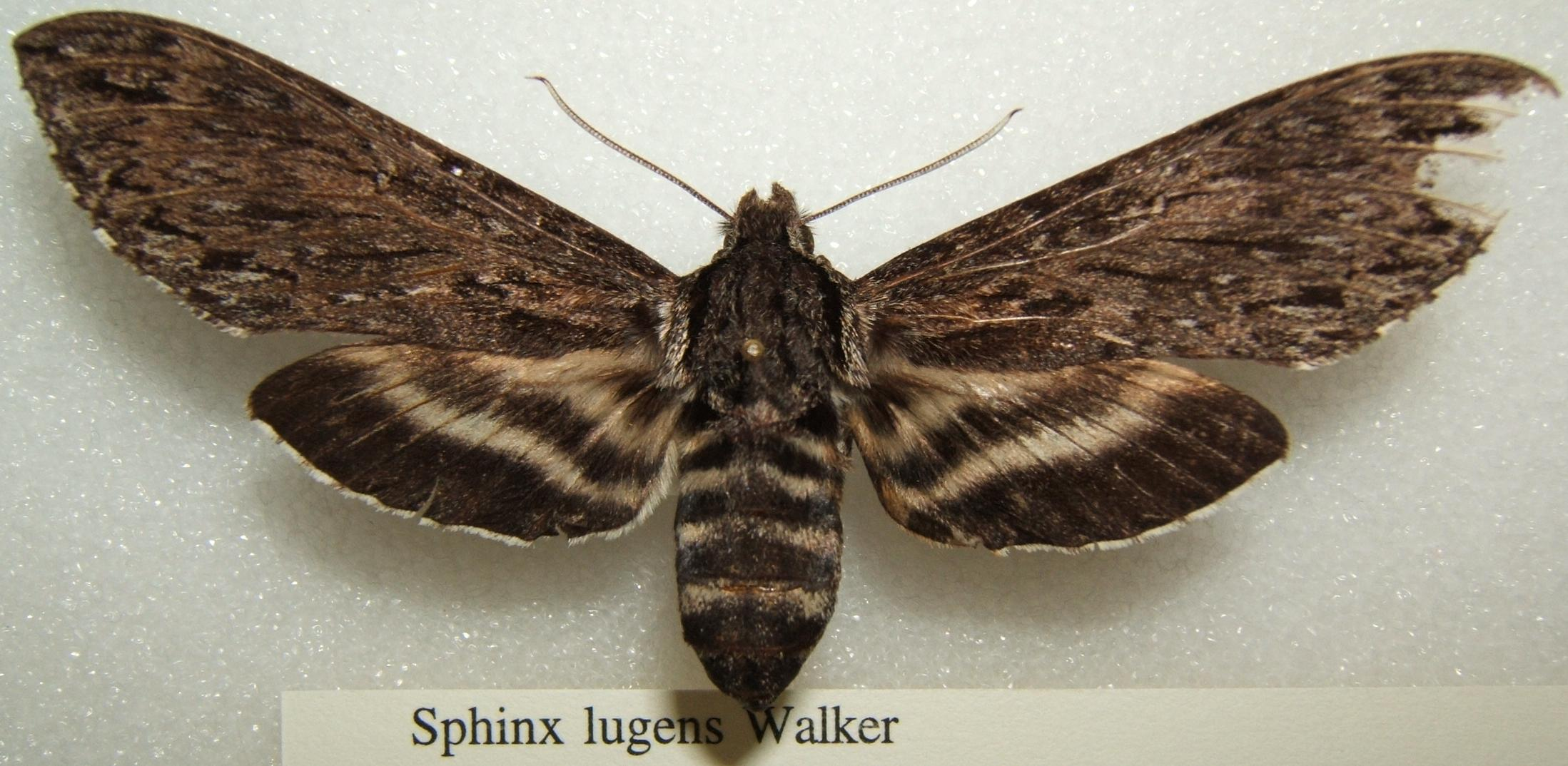 Sphinx lugens adult taken by Shawn Hanrahan at the Texas A&M University Insect Collection in College Station, Texas.